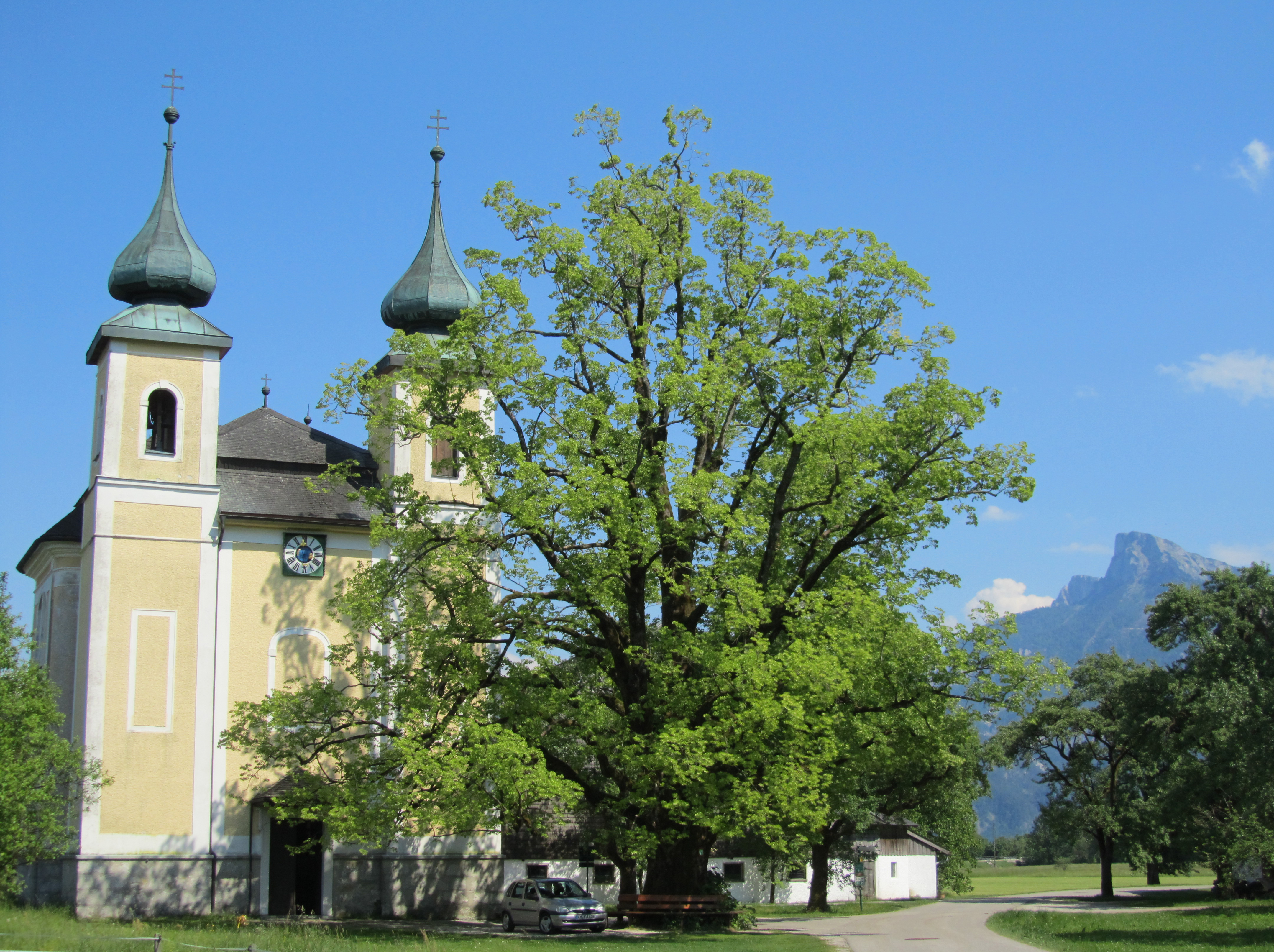 Saint Laurent's church, St. Lorenz, Austria